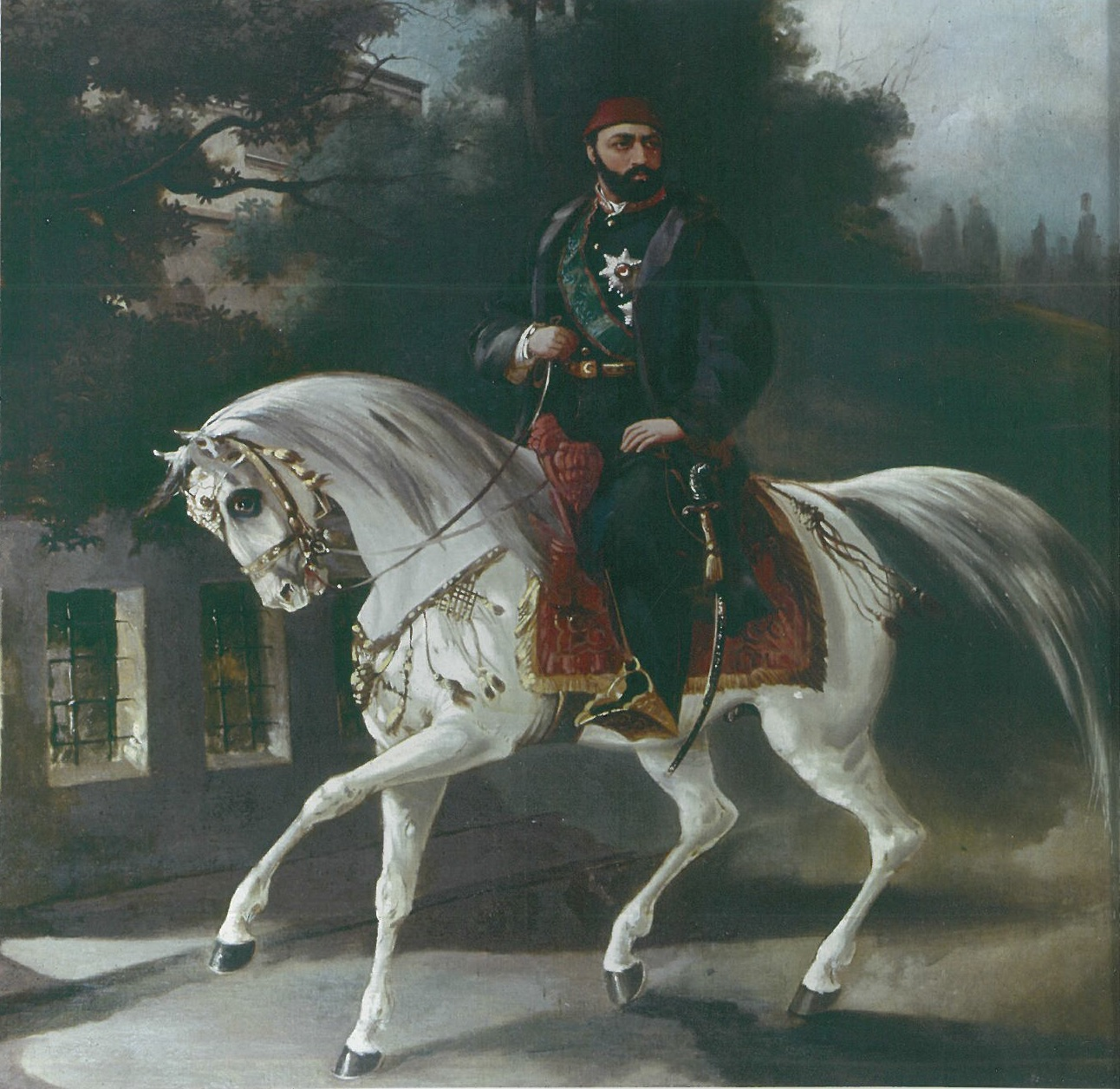 A painting of Ottoman Sultan Abdül Aziz I on horse back.